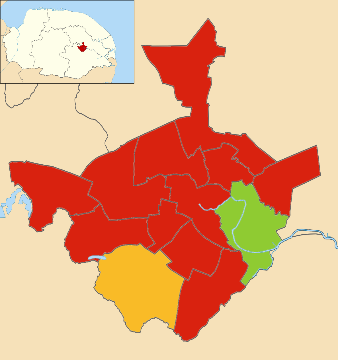 Results of the 2016 local elections in Norwich Colours: Labour Liberal Democrat Green Party